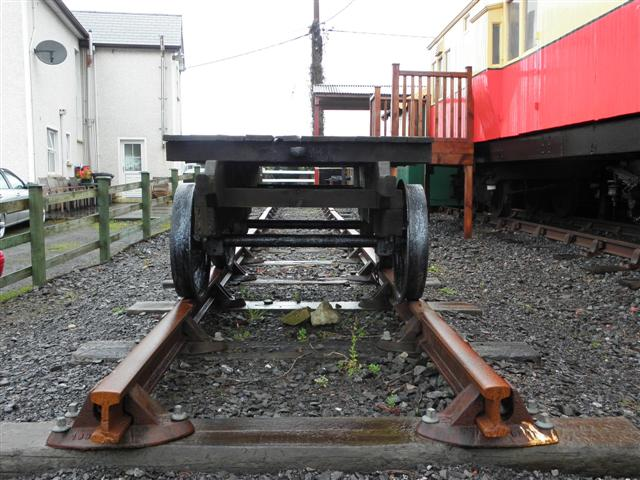 A piece of track, Donegal Railway Station. Pictured here 2557693